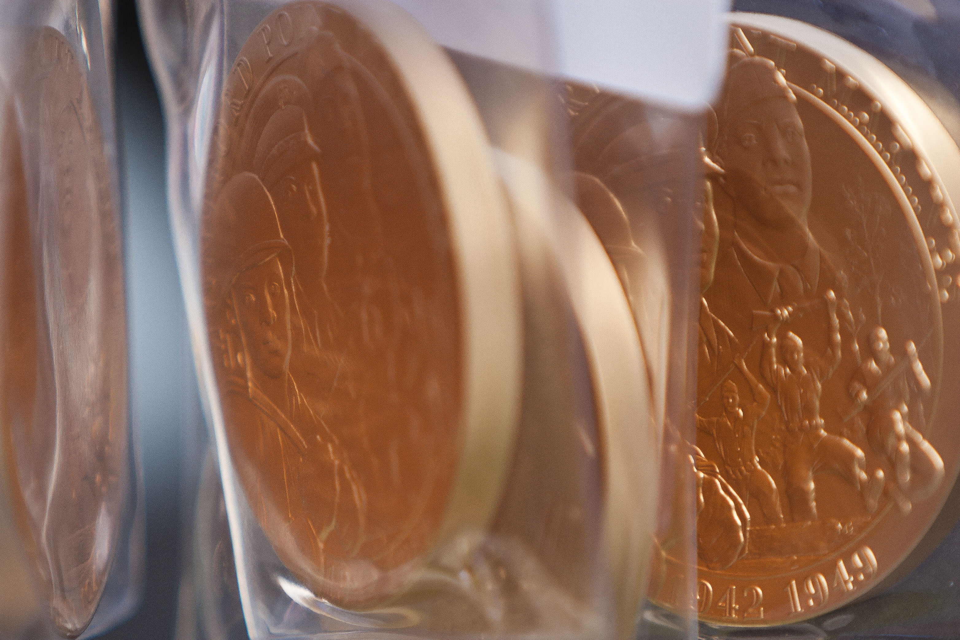 Montford Point Marines were awarded replicas of a Congressional Gold Medal during a presentation ceremony at the historic parade grounds of Marine Barracks Washington June 28. In 1942, President Roosevelt established a presidential directive giving African Americans an opportunity to be recruited into the Marine Corps. Between 1942 and 1949 approximately 20,000 African America...n Marines received basic training at the segregated Montford Point instead of the traditional boot camps of Parris Island, S.C. and San Diego, Calif. These men fought for their country with honor and valor that are hallmarks of the Corps, but they were not treated as equals to their white counterparts at the time. Gen. James F. Amos, commandant of the Marine Corps, set out to begin to right this wrong when he invited the Montford Point Marines to the Barracks Aug. 26, 2011 to be the guests of honor at a Friday Evening Parade, bringing their story to the national forefront and starting a chain of events that lead to this historic day.